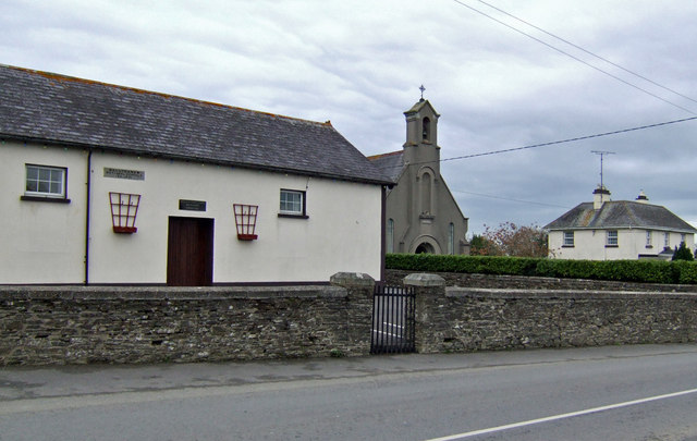 Parish hall and church, near to Baile ui Chonnmhai, Wexford, Ireland. By the Ballymore road, Ballycanew, Co. Wexford.